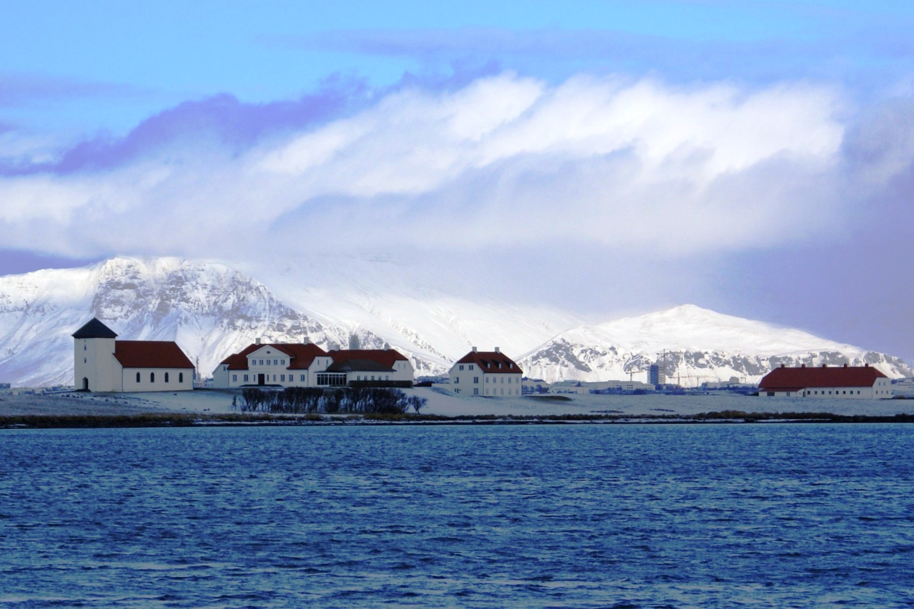 Bessastaðir, Álftanes. Álftanes is a low-lying peninsula located south of Reykjavík. Álftanes